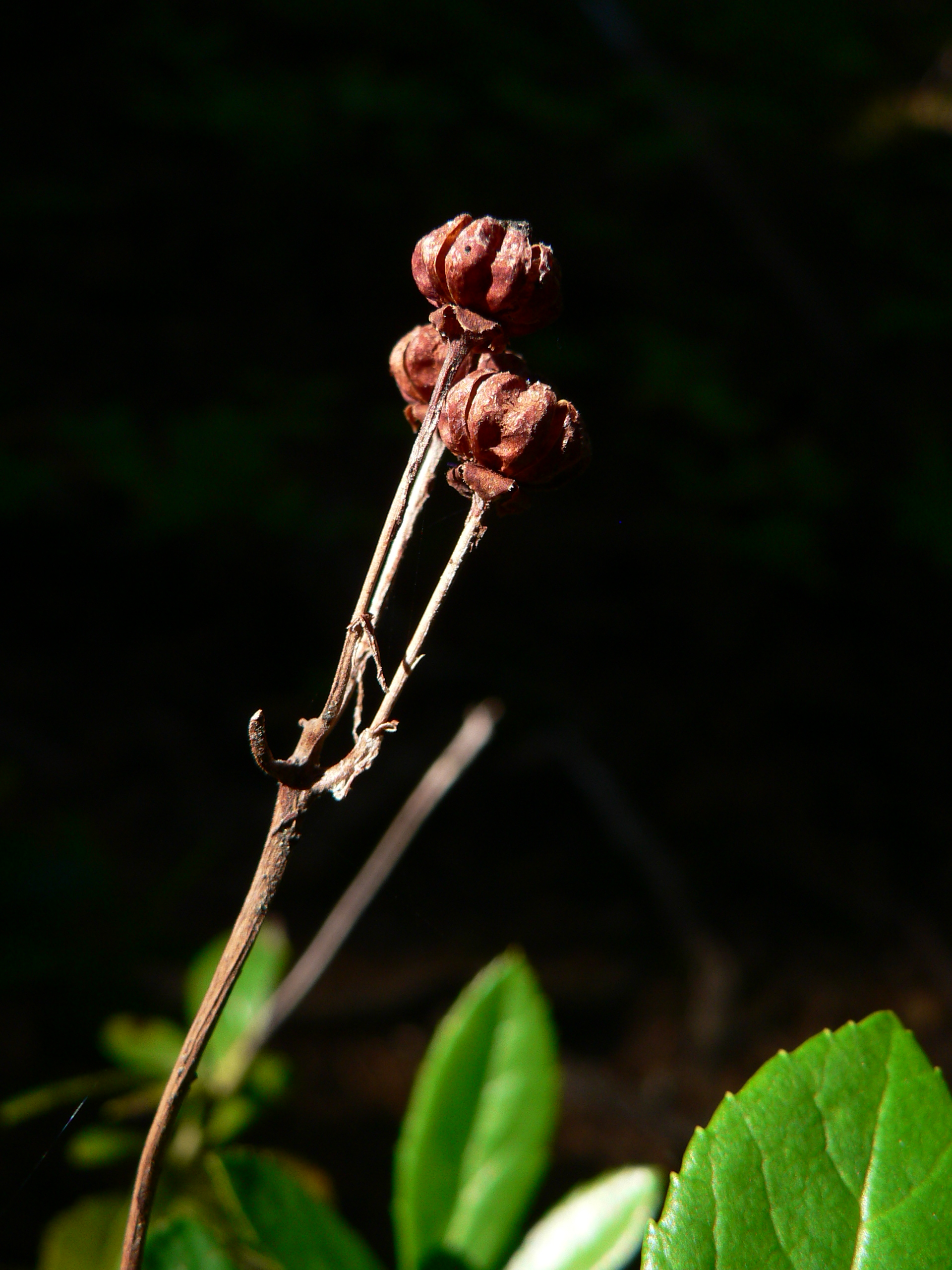 Pipsissewa